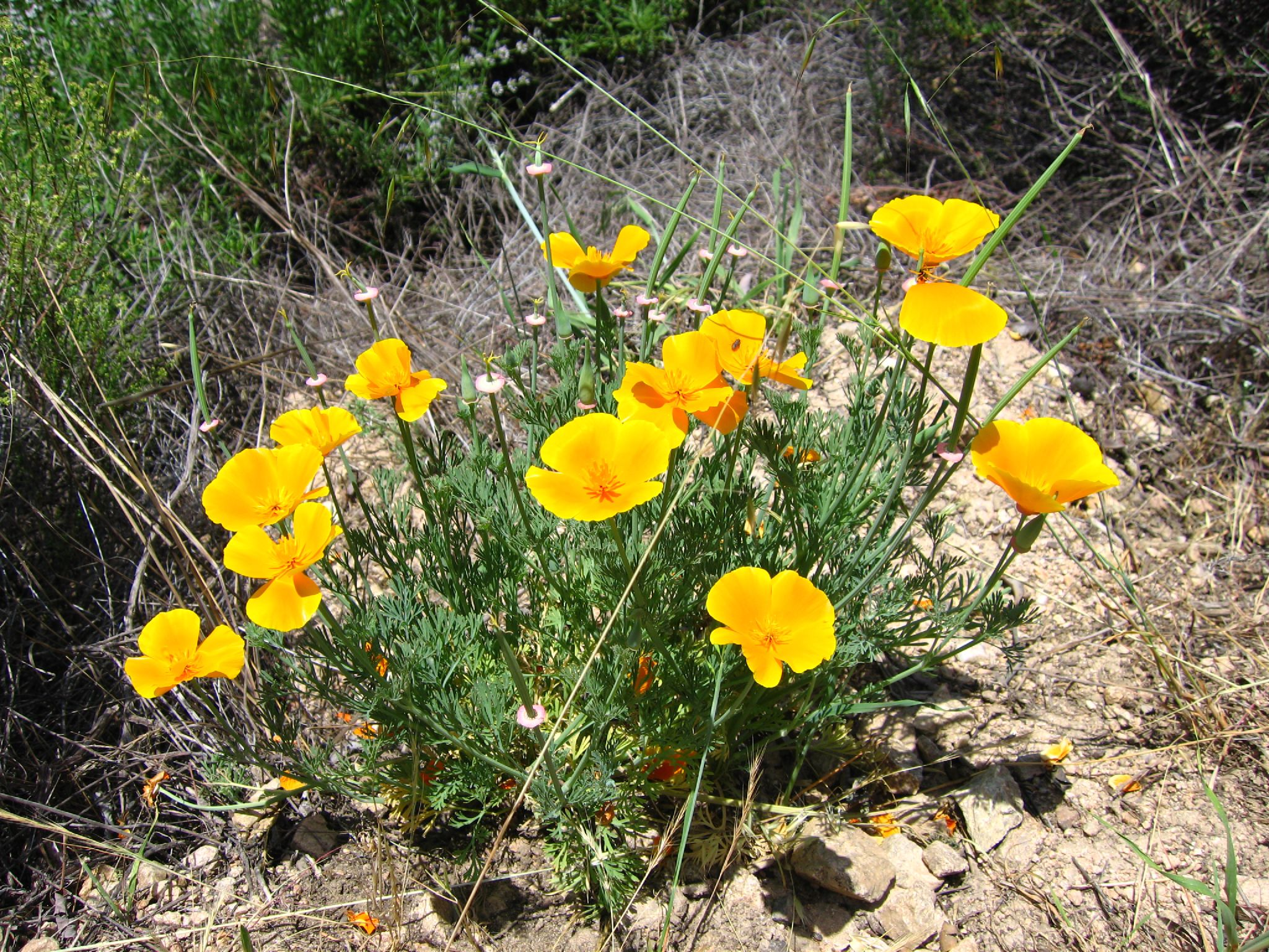 California Poppy